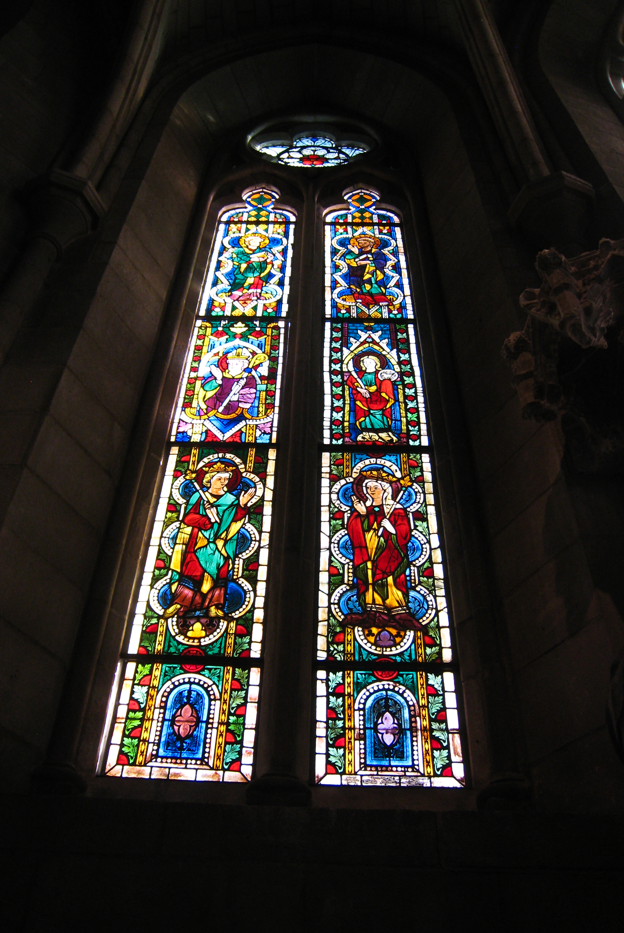 Stained Glass from St. Leonhard Pot-metal glass, white glass, and vitreous paint Austria, Kärnten (Lavanttal), 1340-1350 From the choir and north chapel windows of the pilgrimage church of St. Leonhard at Bad St. Leonhard in Lavanttal, near Klagenfurt The stained glass in the three aspidal windows originally, comprised two entire windows and parts of four others in the church of St. Leonhard. A single workshop apparently created the entire glazing program. The painting is characterized by a bold linear and attenuated figure style, by a rich, saturated palette, and by inventive pattened grounds and borders. Figures of Apostles are set against unusually shaped frames called keyhole medallions. Borders and foliate decorations in brighlty contrasting colors contribute to the lively, shimmering surface. In the left double lancet are figures of Apostles and saints, including Emperor Henry II and his wife, Kunigunde, the patron saints of the donors of the window. The central window portrays events after the Crucifixion of Christ and scenes from the later life of the Virgin. In the right lancet are bishop, warrior, and martyr saints and church fathers.